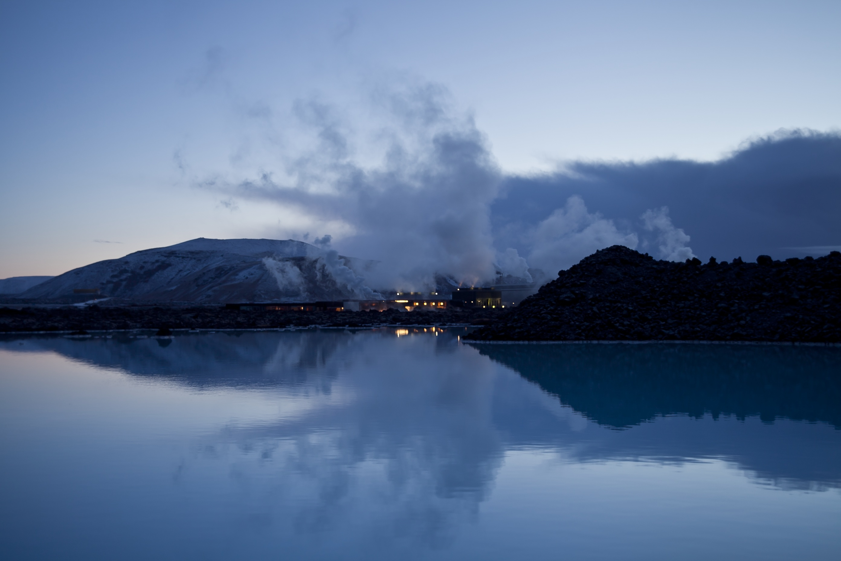 Iceland Blue Lagoon